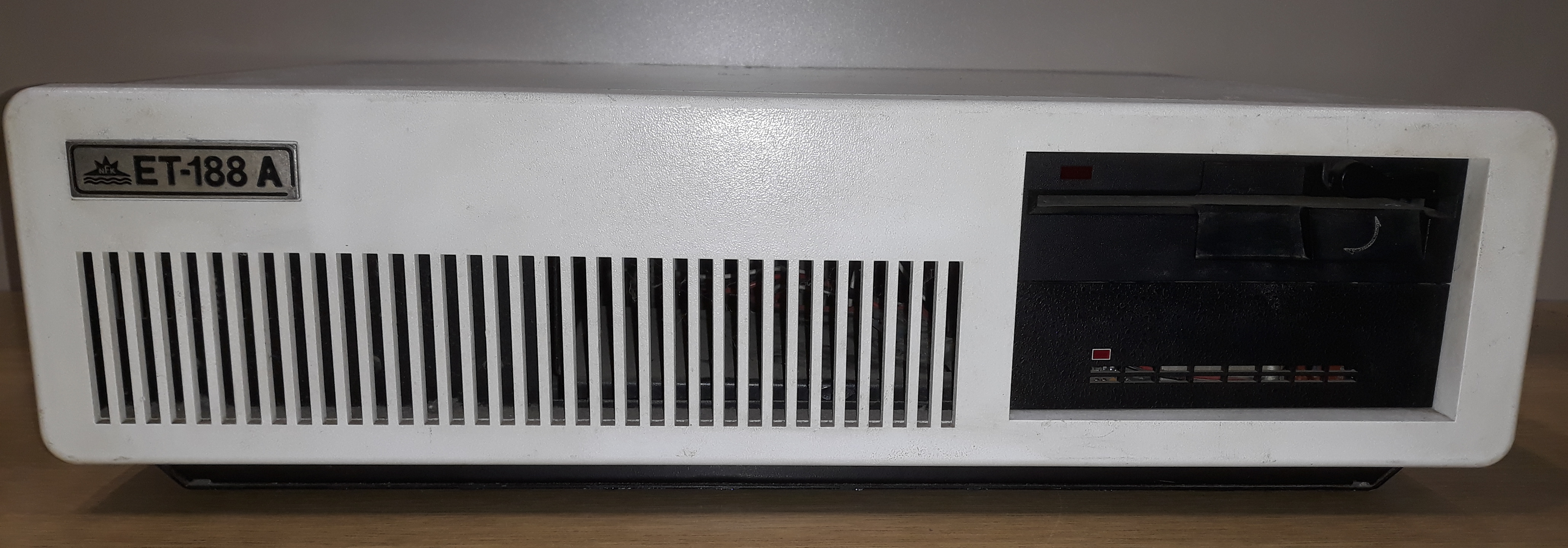 Novkabel NFK ET-188a computer (front side)